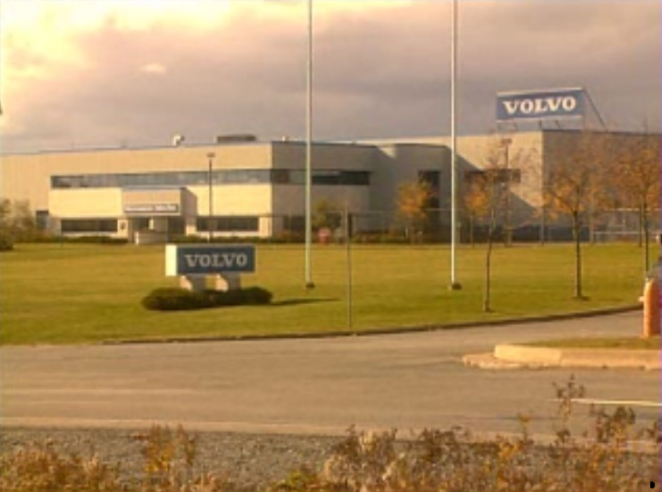 Volvo Halifax Assembly - Bayer's Lake Plant (1998)